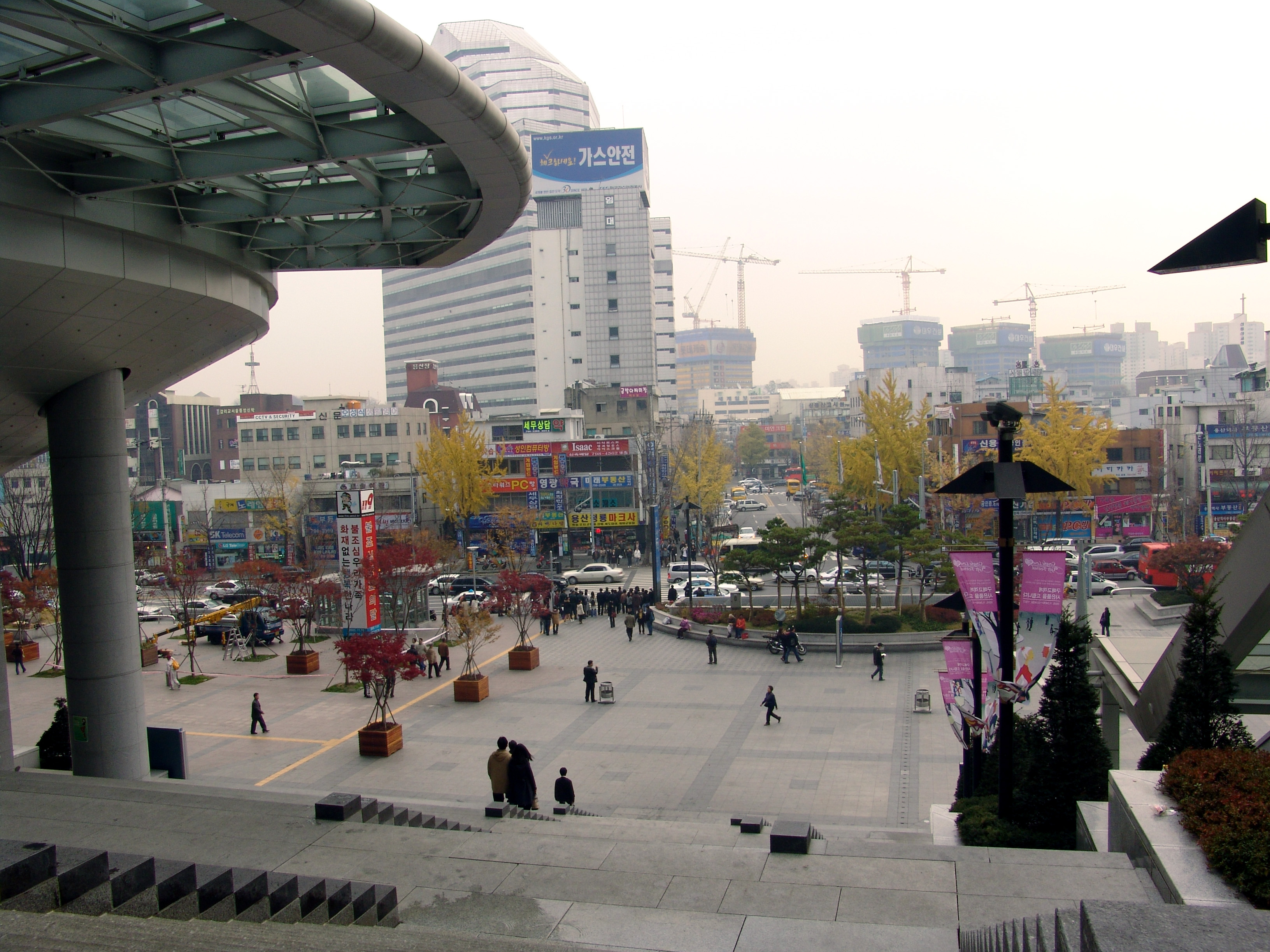 The plaza at the entrance of Yongsan Station. I took the picture